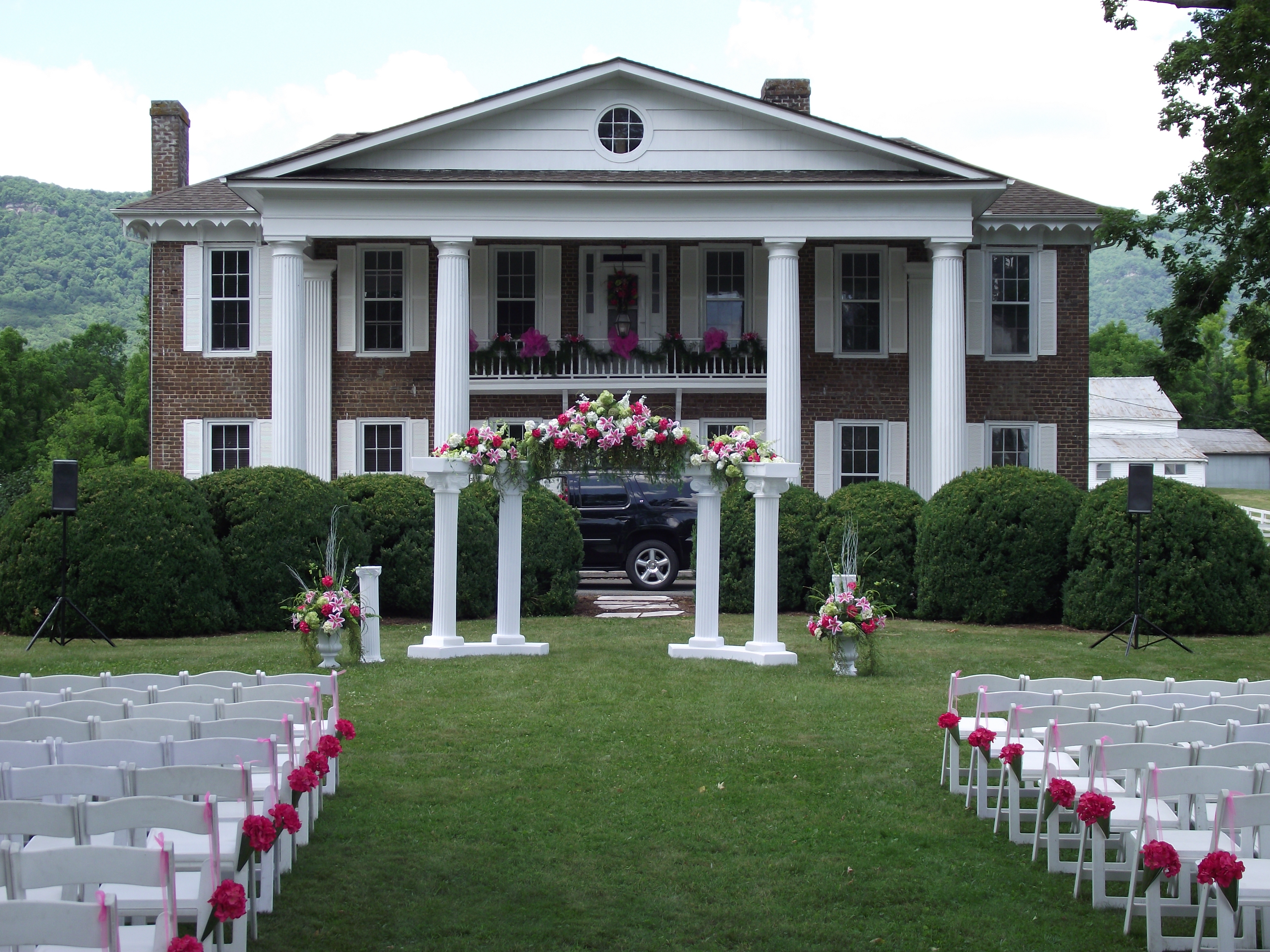 Photos of the Karlan Mansion and grounds, completely decorated for a wedding. By Mike Brindle.